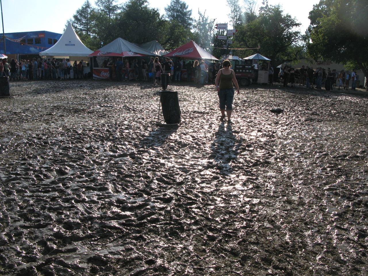 Gurtenfestival after heavy rainfalls 2007